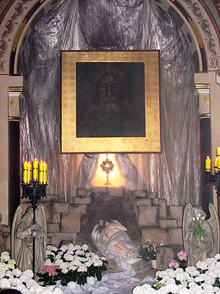 "Sepulchre of the Lord" (Katowice Panewniki, Poland, 2012)